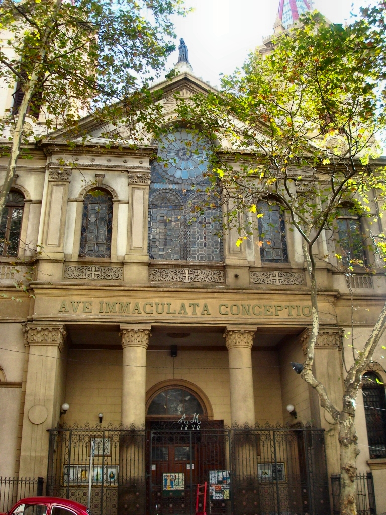 Parroquia San Miguel Garicoíts (Vascos), Centro, Montevideo, Uruguay. Obra del arquitecto francés Víctor Rabú.